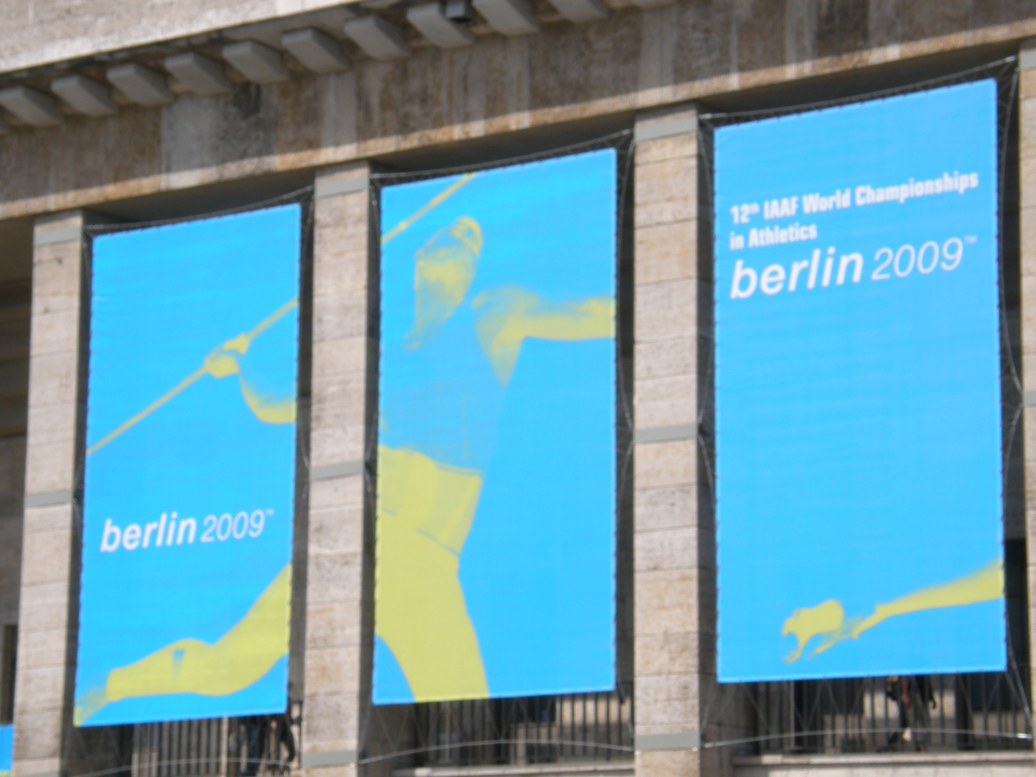 Olympiastadion